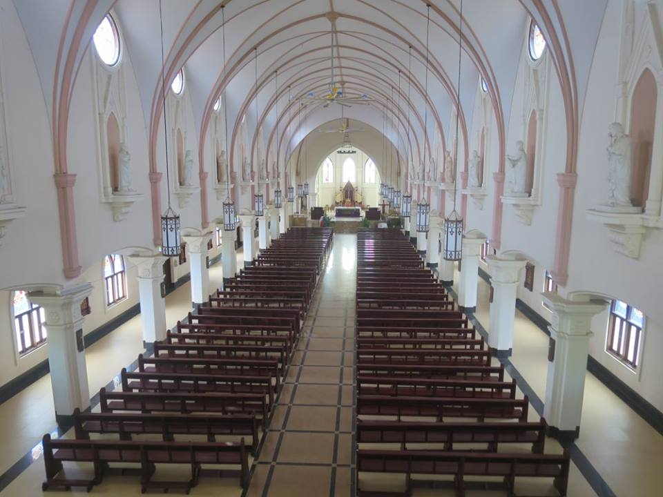 Ave Maria church (Suai)